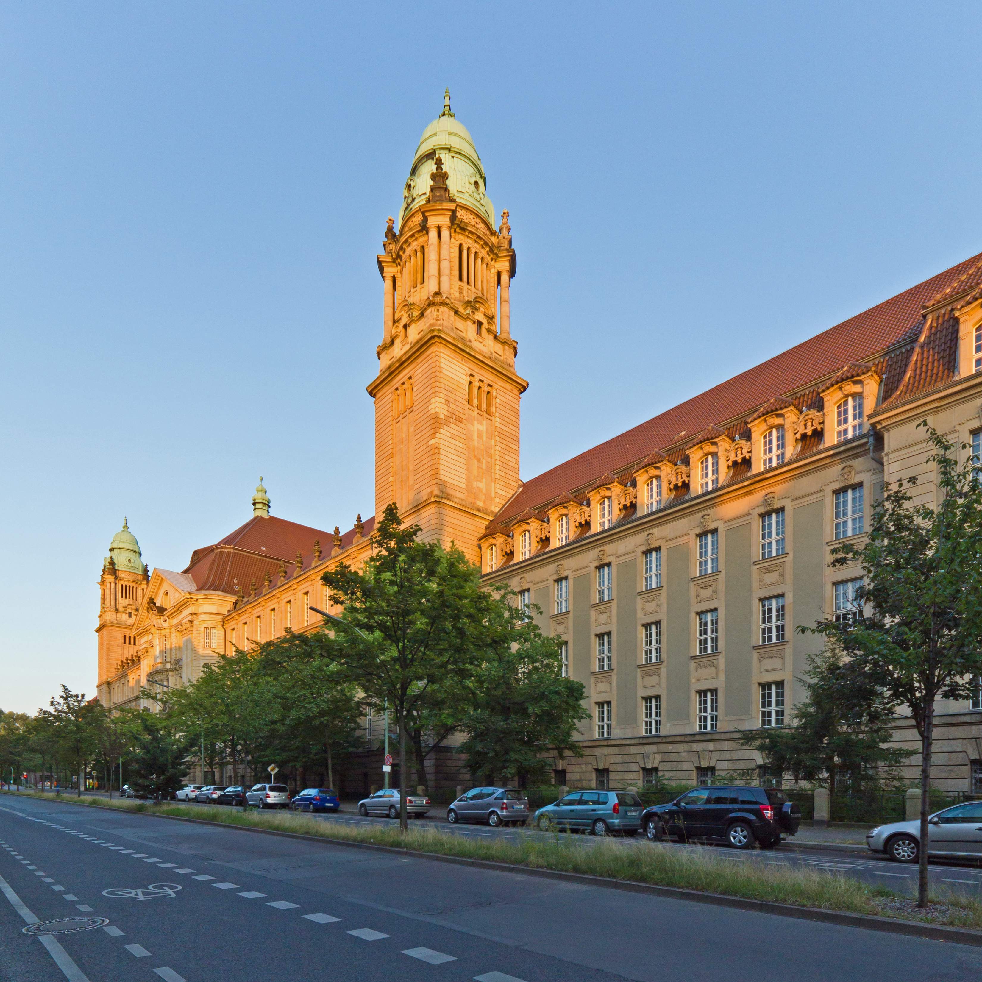 A courthouse in Berlin-Moabit, Germany